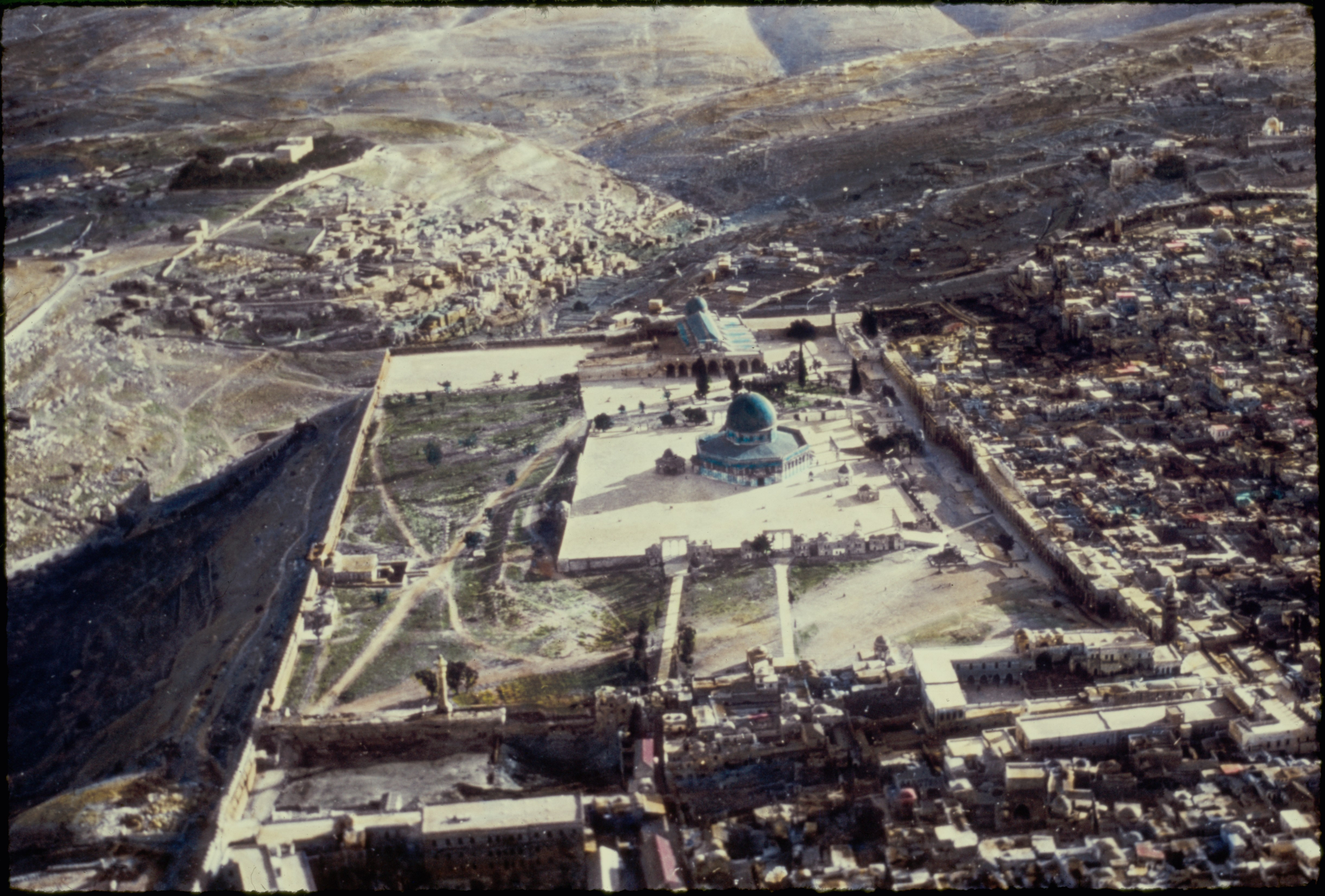 Title: Jerusalem. Temple area, from the North, Siloam in the distance, air Abstract/medium: G. Eric and Edith Matson Photograph Collection Physical description: 1 slide